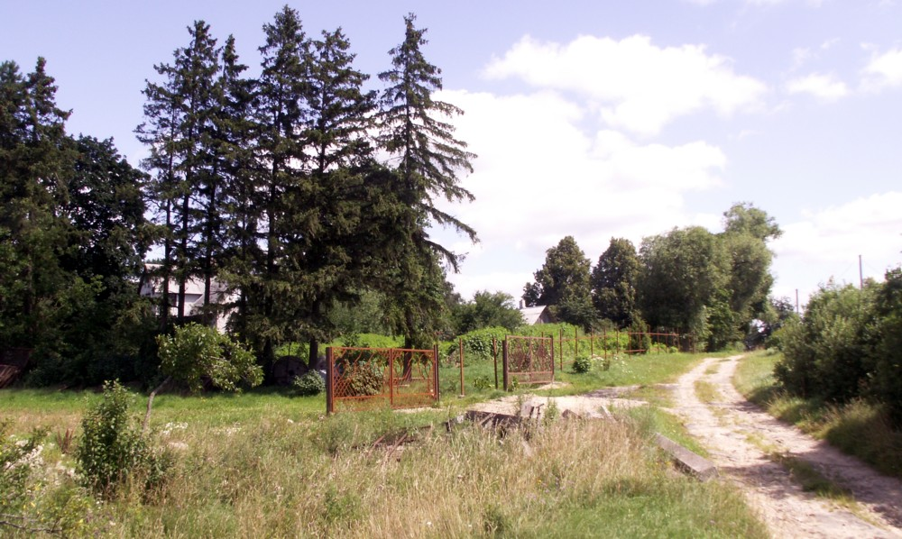 Slydžiai, Šiauliai district, Lithuania